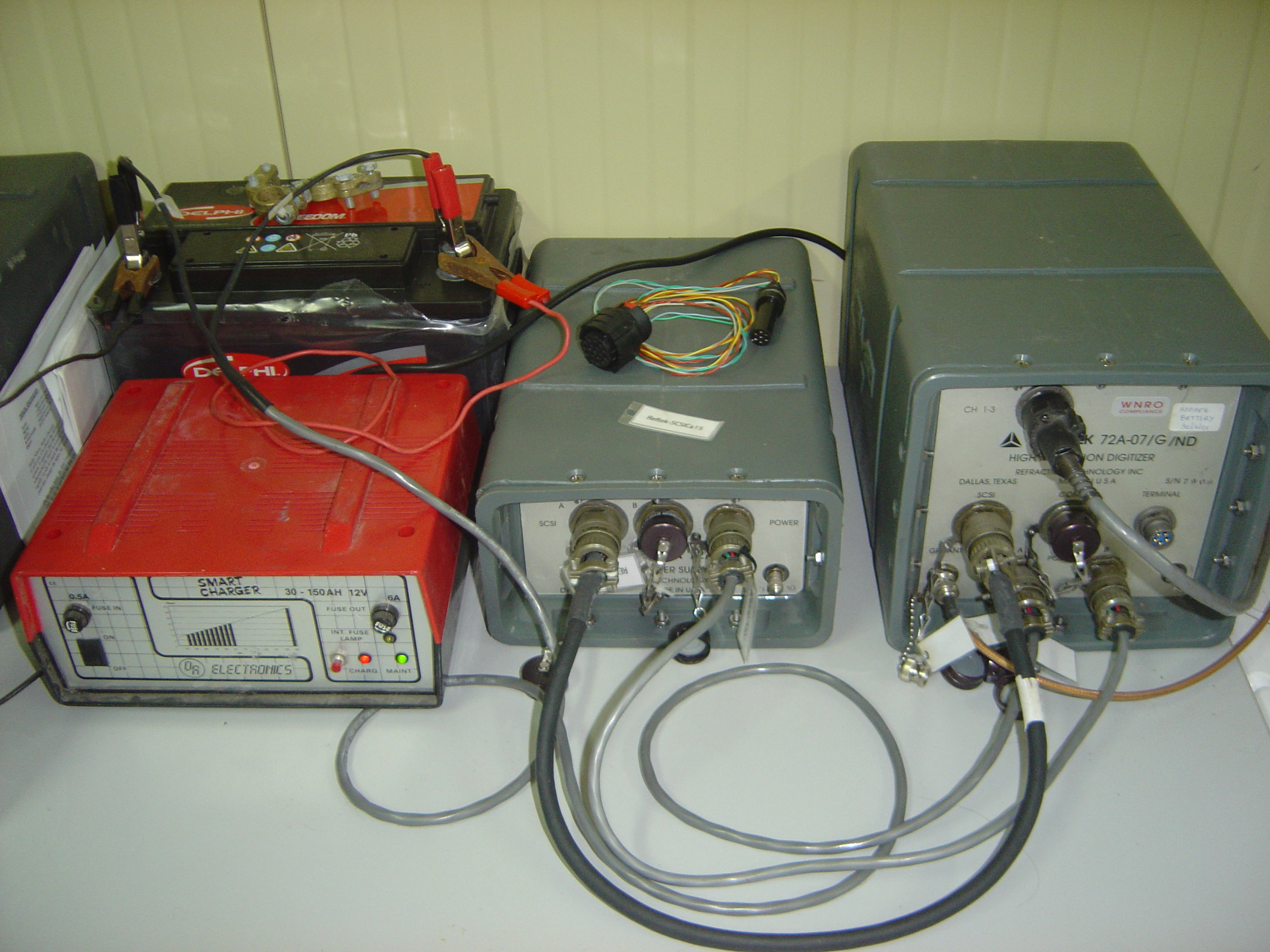 Field computerized equipment for geophysics: a digitizer a hard disk field-deployable SCSI cabling battery charger battery In less luxurious settings, the hard disk and the digitizer would be placed in a simple shelter.